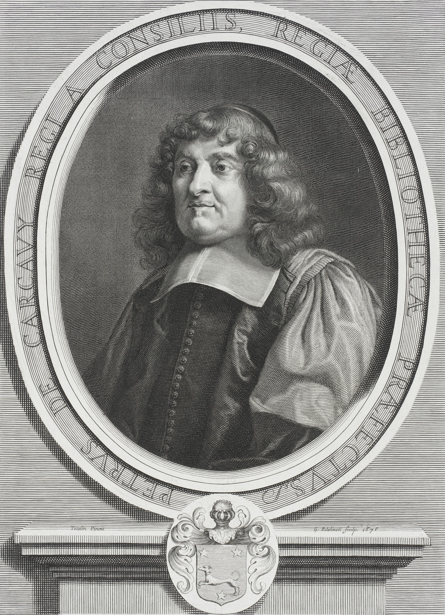 Flanders, 1675 Prints; engravings Engraving Gift of Mr. and Mrs. Theodore Harris (AC1993.213.8) Prints and Drawings